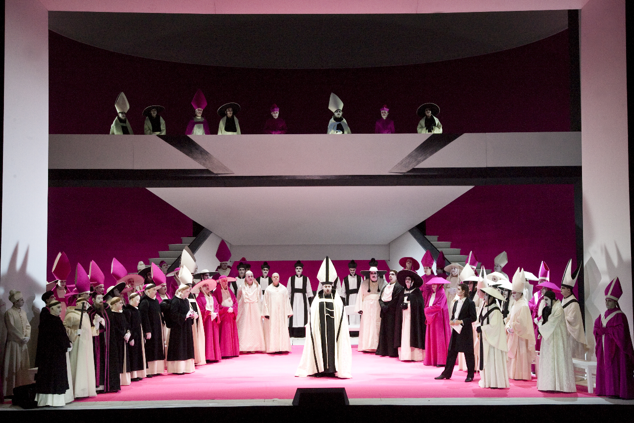 Production of Palestrina at Hamburgische Staatsoper 2011, stage photo of Act II, Scene 5: Wolfgang Koch as Giovanni Morone (center stage) opens the session of the Council of Trent, soloists (see picture annotation), choir, extras